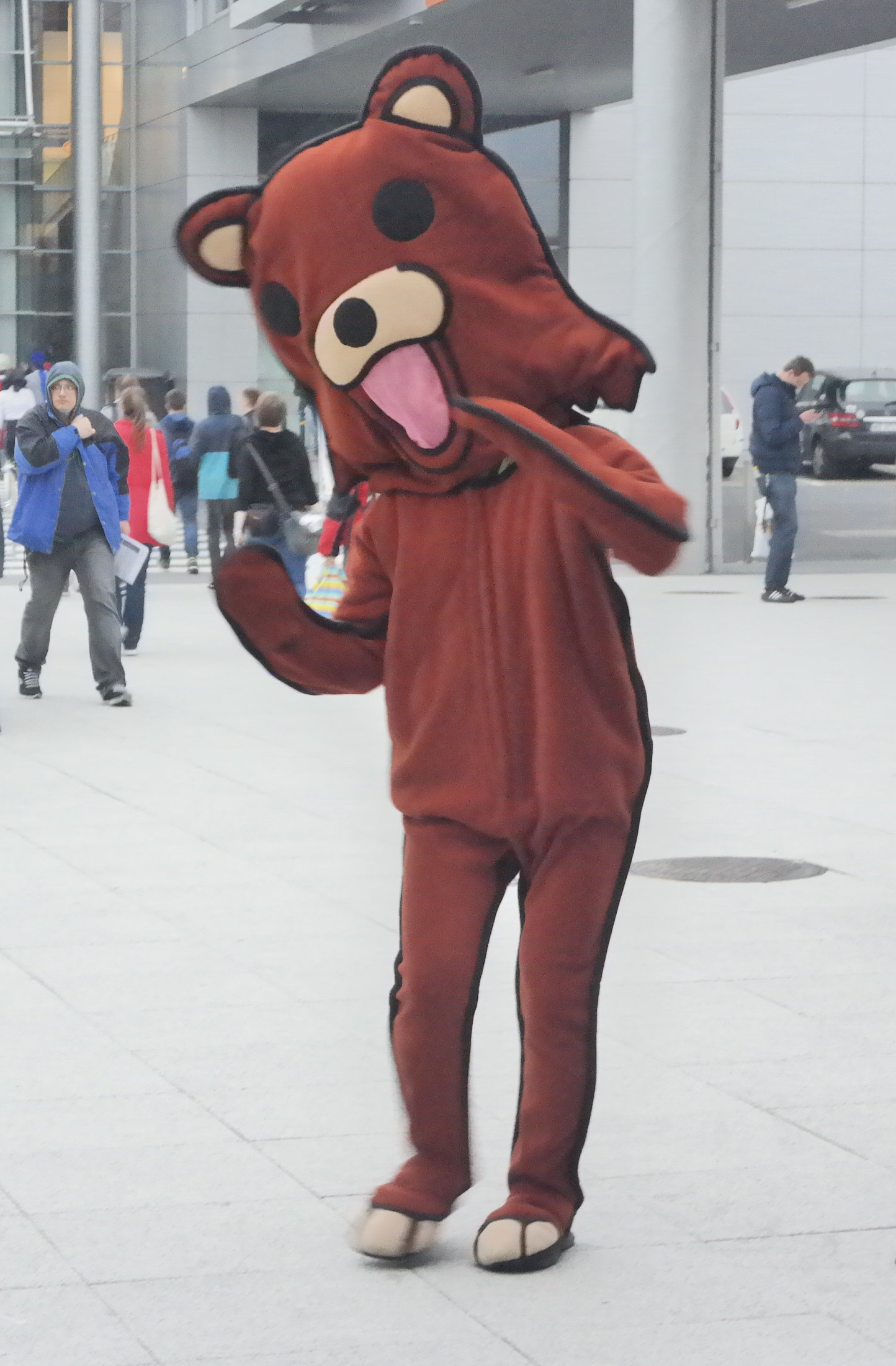 Cosplay of Pedobear, Multigenre Fan Convention Pyrkon 2017 in Poznań